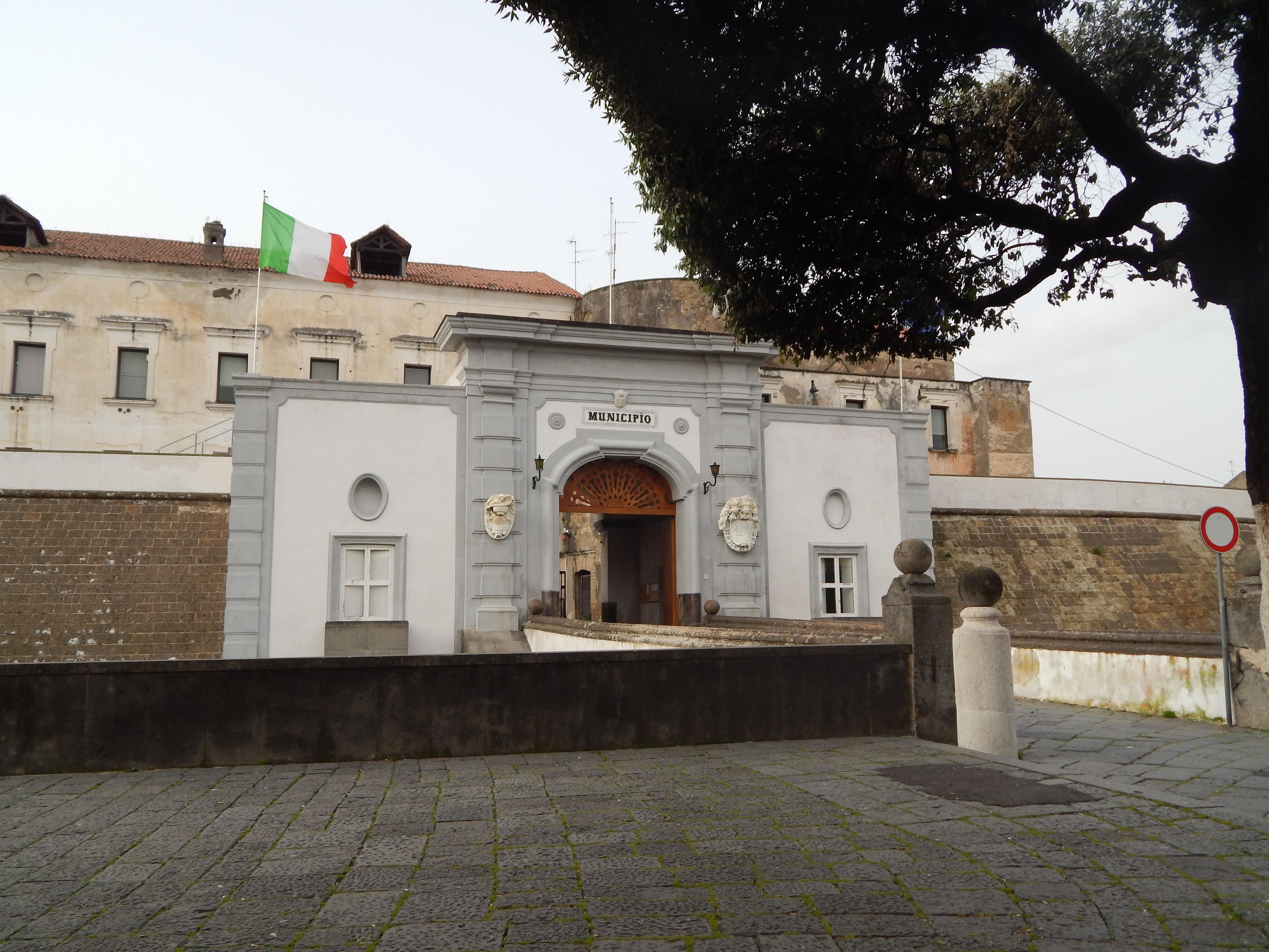 Castello Baronale Acerra 2014